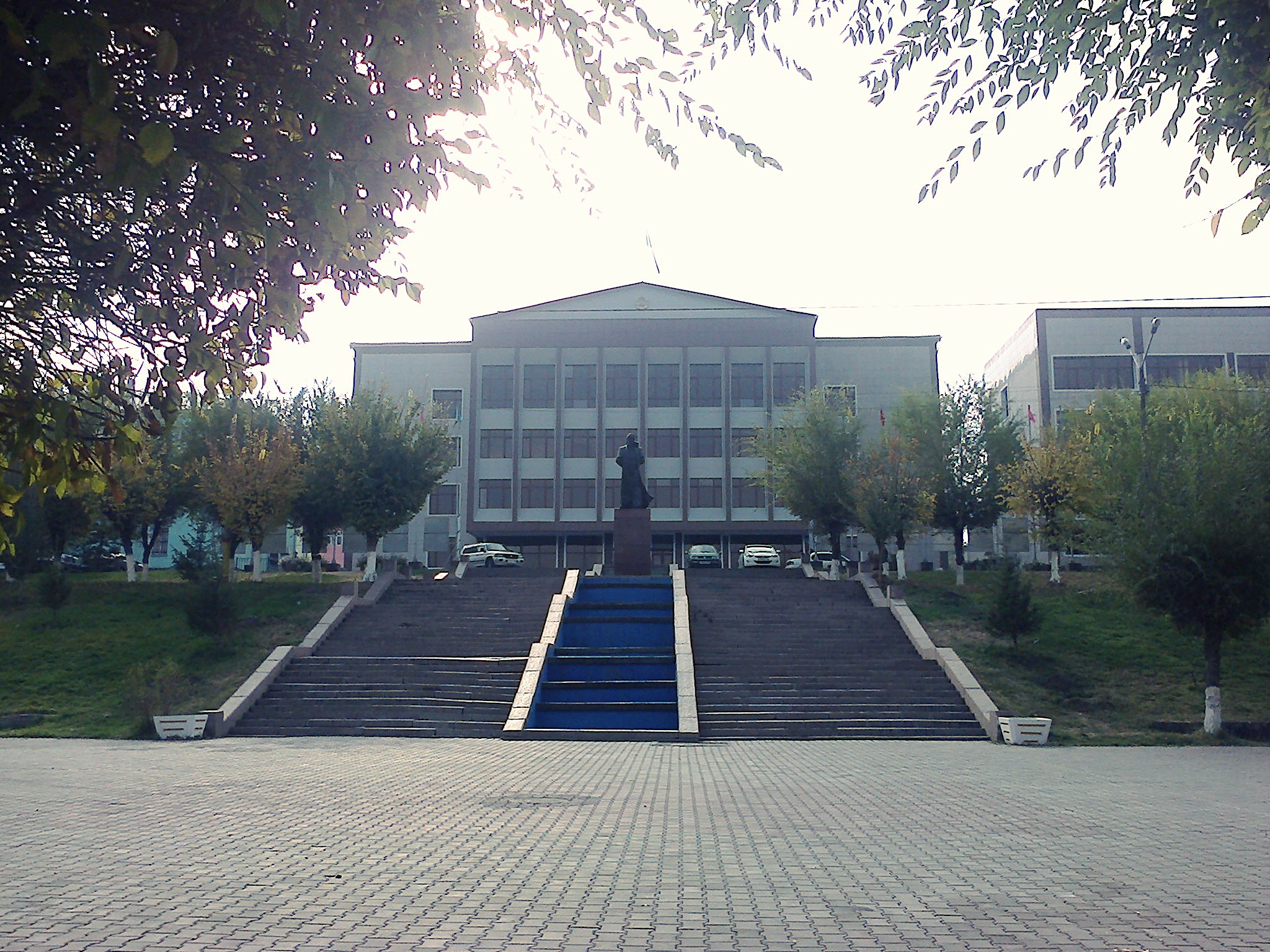 Lordegraf